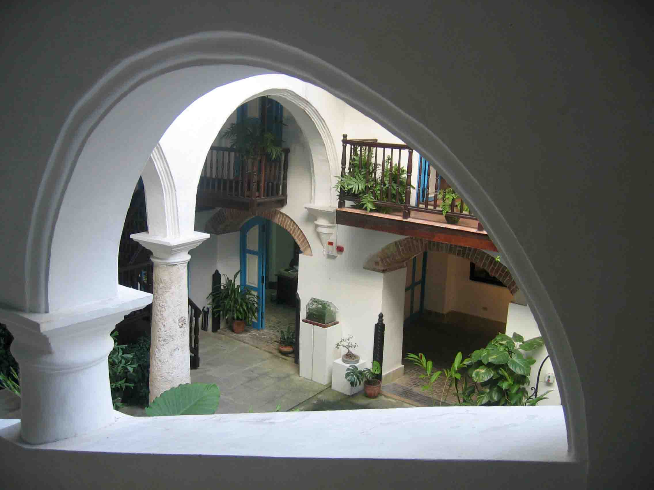 = The courtyard of one of the free musea in Havana Vieja, Havana, Cuba, 12 January 2004. I think it's the 'Casa de Simon Bolívar', but I'm not entirely sure.